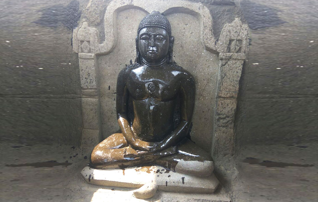 Lord Neminath in Tirthankar Leni, Shahada district, Maharashtra